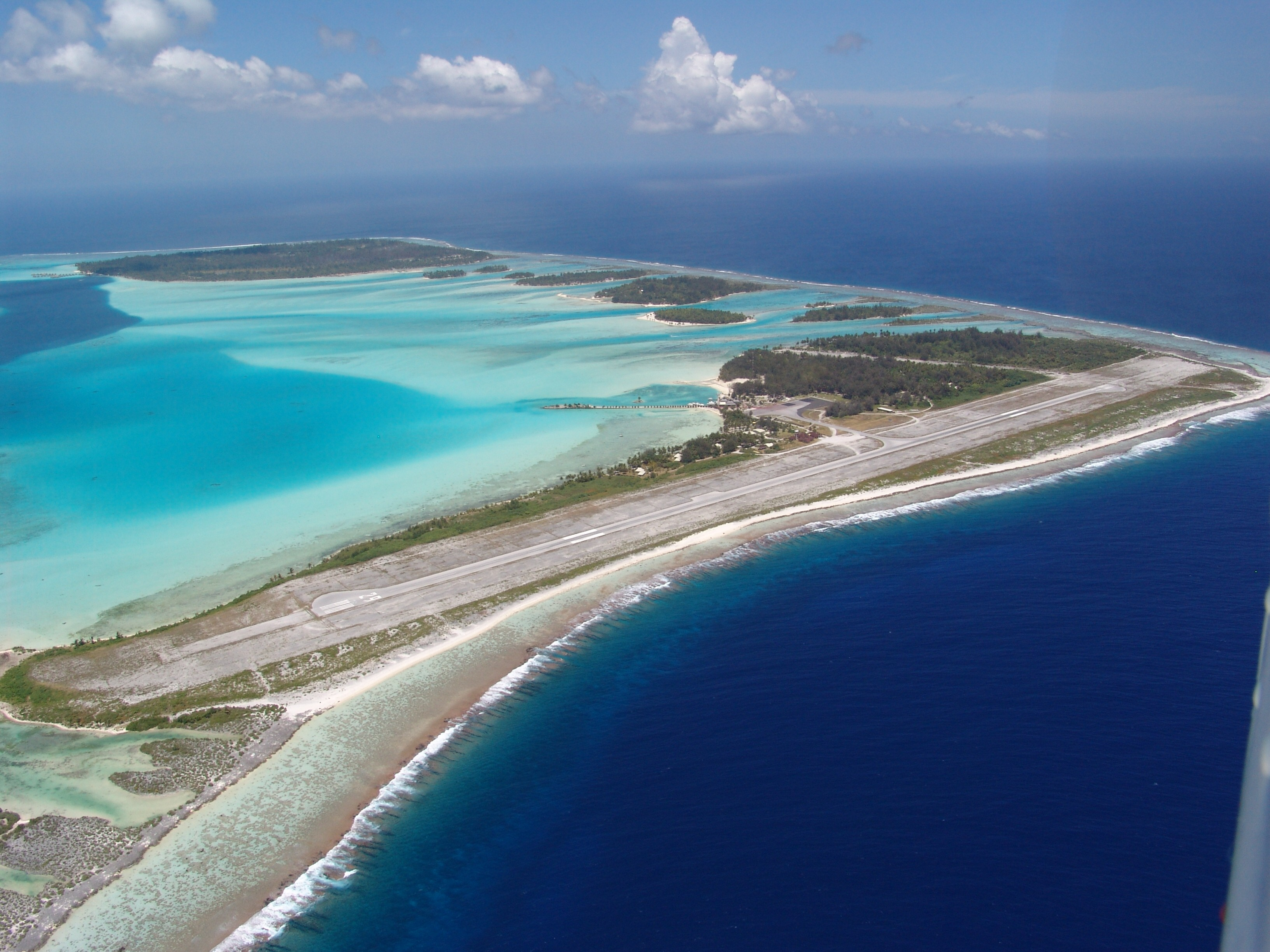 Aerial view of Bora Bora Airport